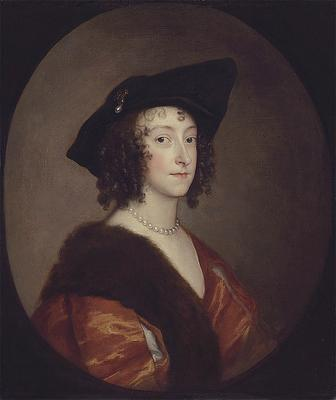 Portrait of Katherine, Lady Stanhope, later Countess of Chesterfield (1609-1667)